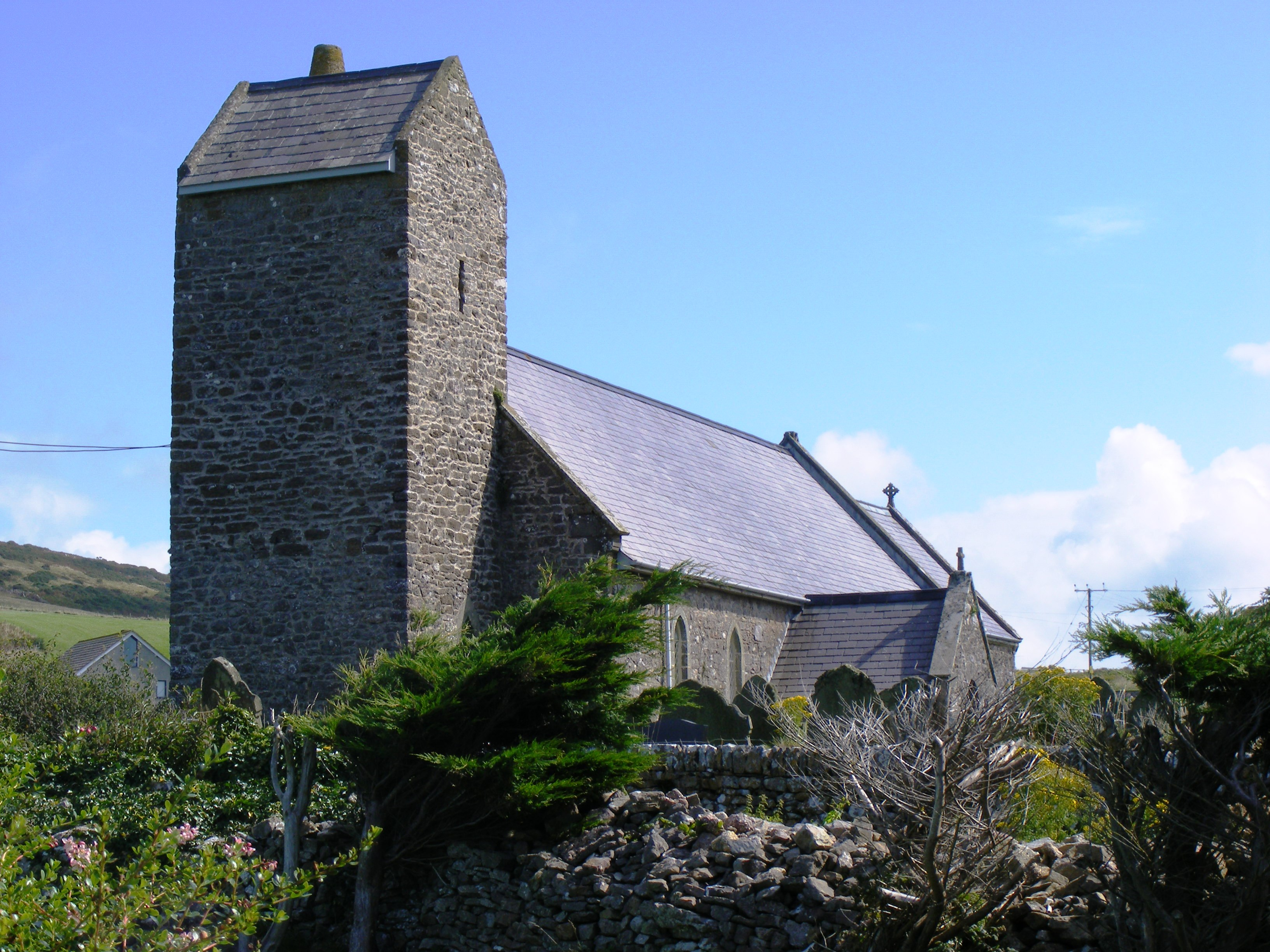 Rhossili Church